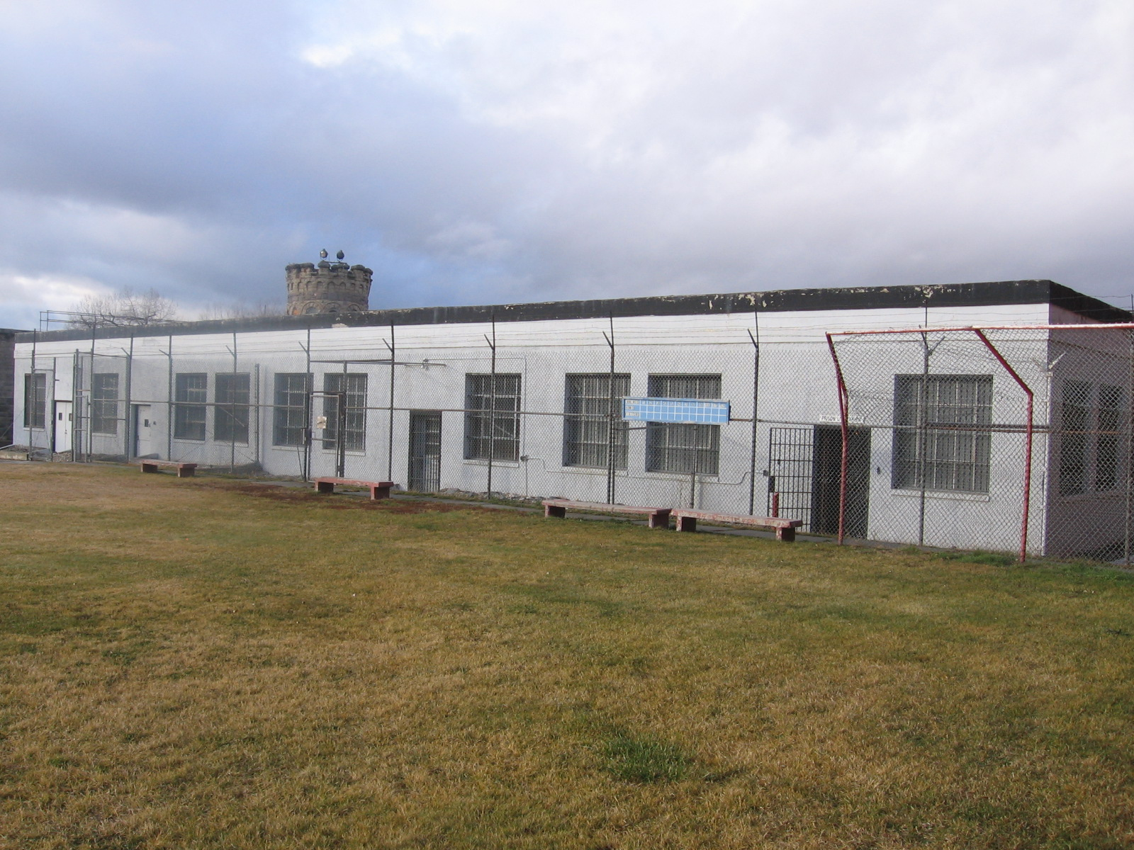 View of the Old Montana Prison Industrial Shop Complex from prison yard.